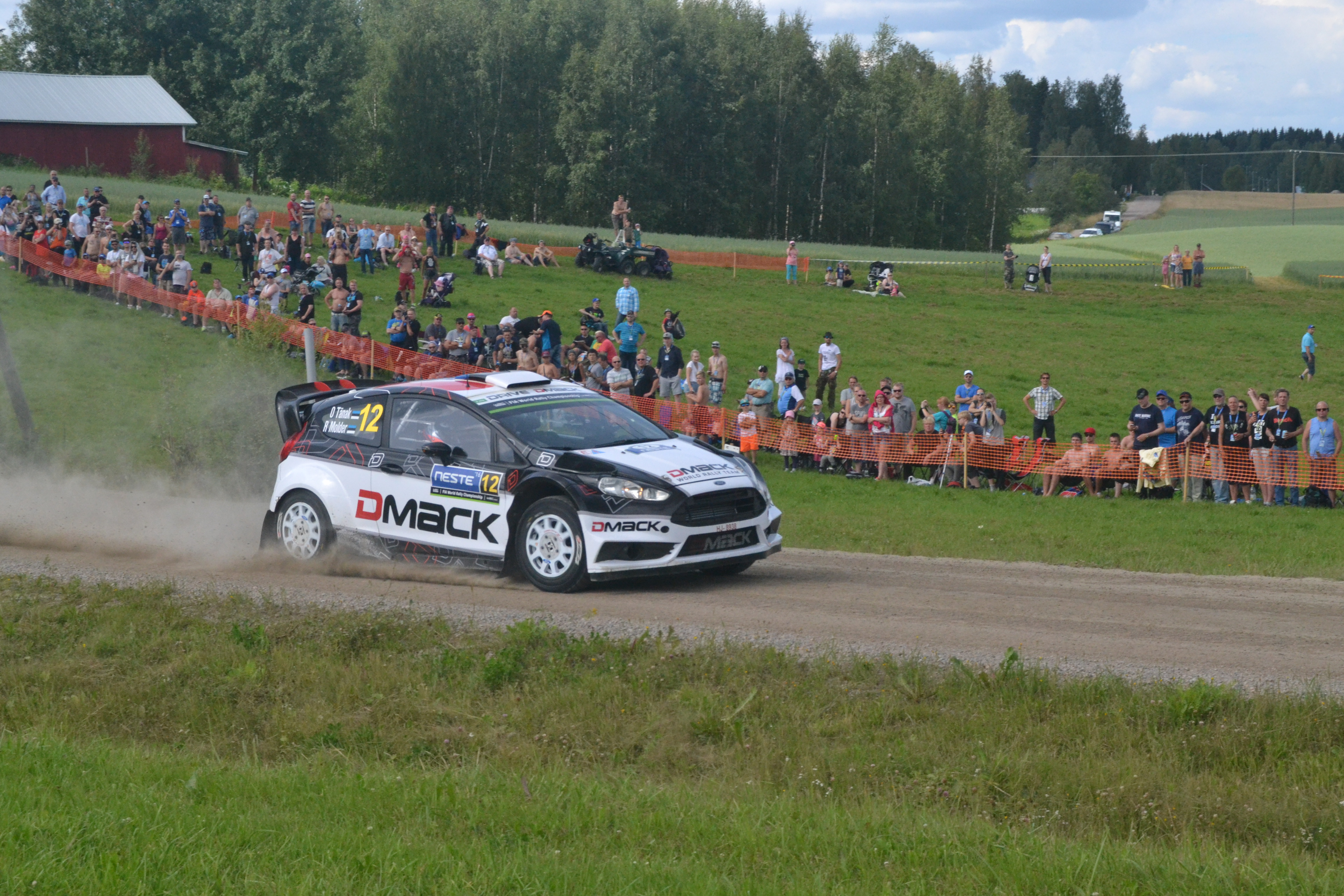 Ott Tänak at Äänekoski–Valtra stage at Rally Finland 2016